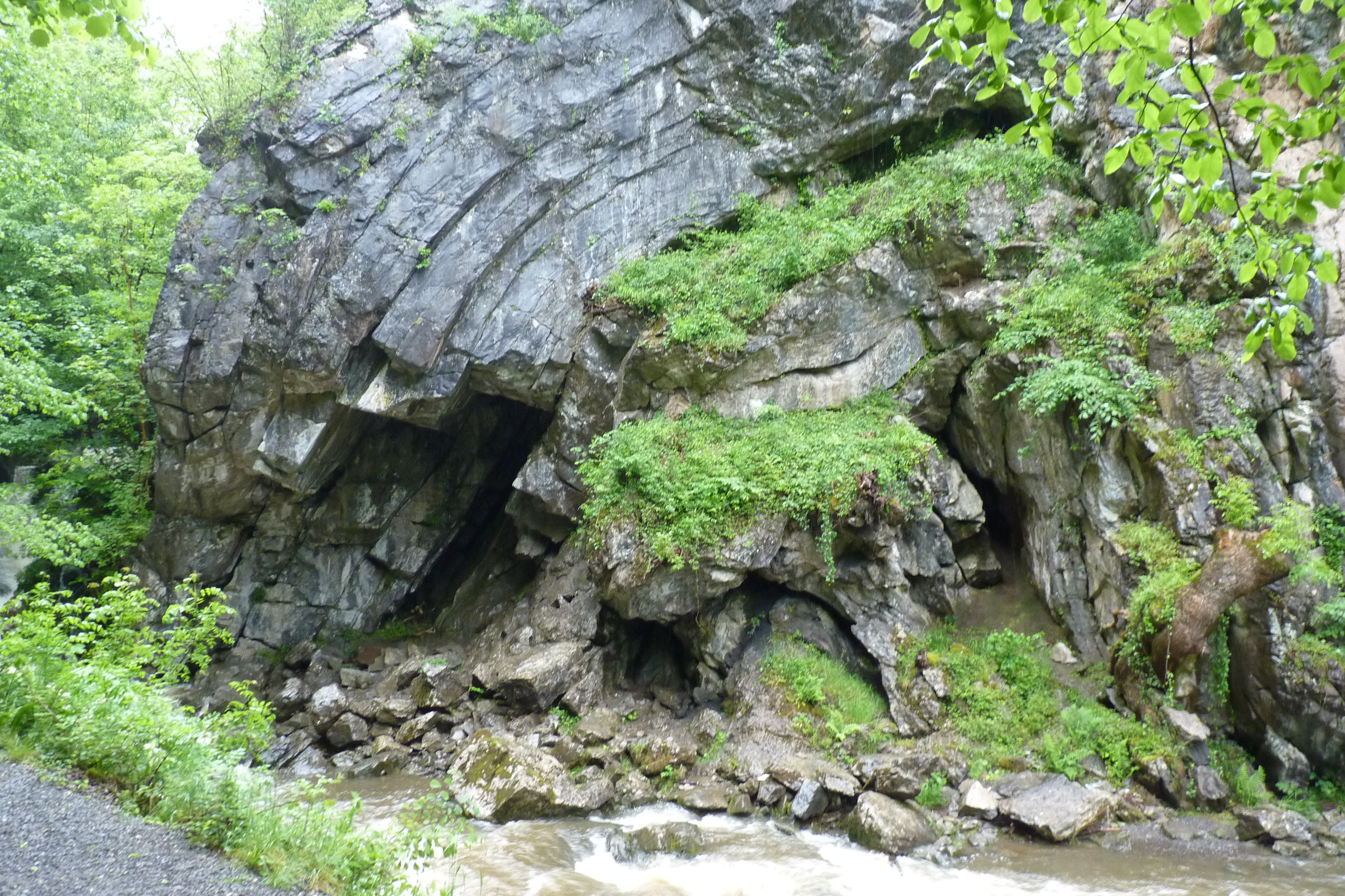 Bwa Maen (The Stone Bow) shows the extreme folding of rock along the Dinas Fault. This is the best place to see the effects of the Neath Disturbance, a fault line running from Hereford to Swansea - the cause of the Swansea earthquake of 1906. (Details from sign board near the outcrop.)